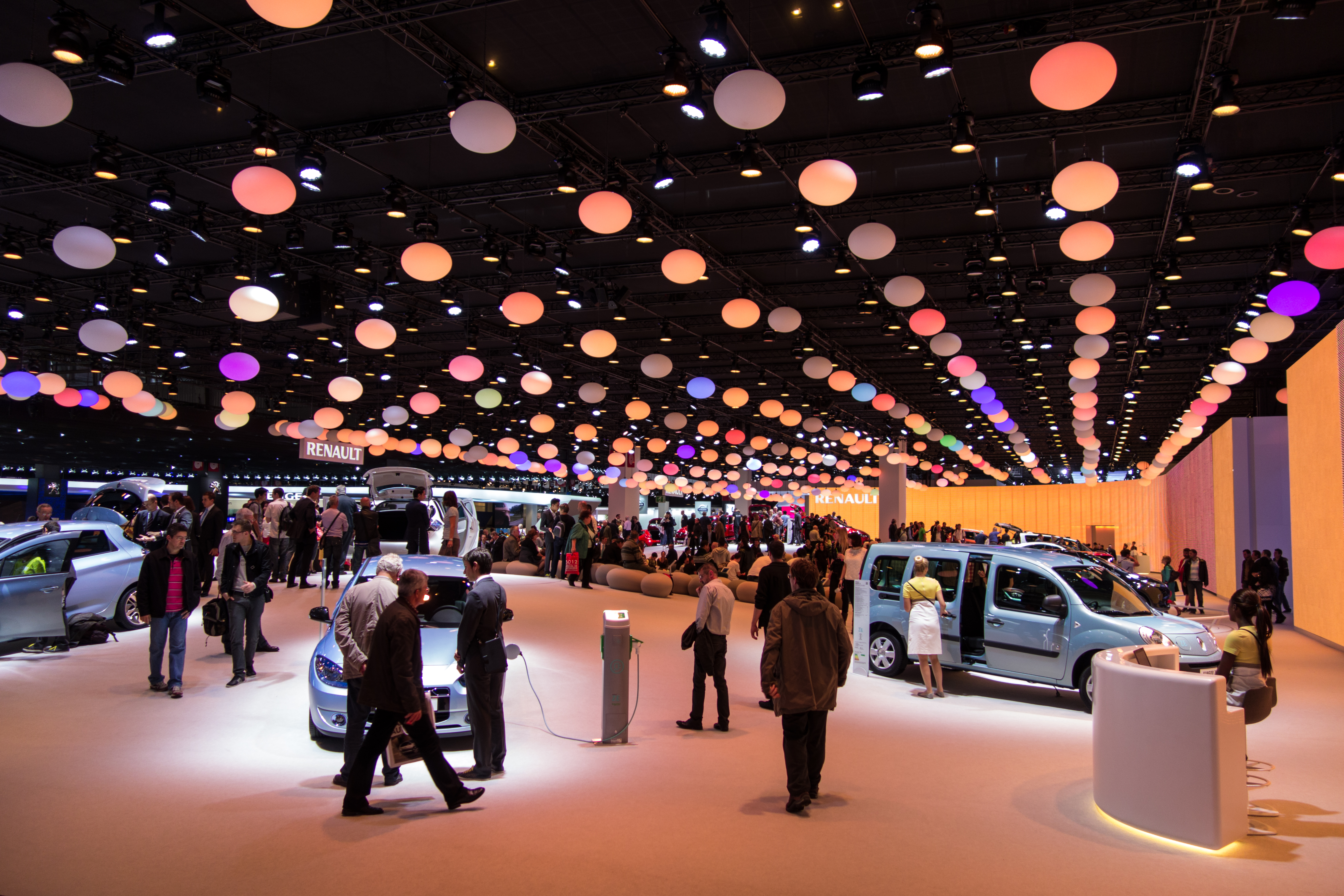 Mondial De L'automobile Paris 2012 | Paris Motor Show 2012